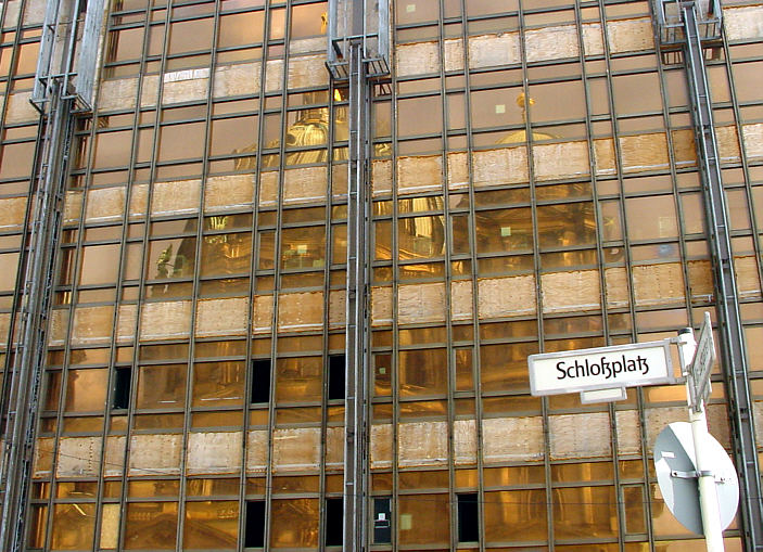 Façade of the Palast der Republik in Berlin